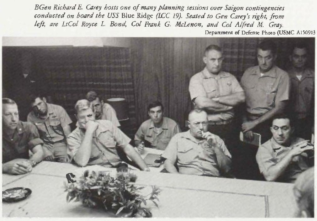 WYSWYG South Vietnam's "strategy": " the essence of South Vietnam's post-Accords military strategy: conserve resources and whenever possible use artillery and air.* The Vietnamese seemed to emphasize an avoidance of engagements with the enemy, a husbanding of forces and military equip-ment, all in anticipation of the big battle during which, at just the right moment, they would strike a fatal blow and defeat the enemy ... The "right time" never arrived ... The population trusted the forces that had guarded them since the cease-fire in 1973, ... When these units redeployed, the Vietnamese voted with their feet ... by beginning a mass exodus to Da Nang. ... Those ARVN soldiers who did not desert to assist their fleeing families, ... were overrun. ... then joined the crazed mob attempting to leave Da Nang on anything that floated. Chaos ruled the streets of Da Nang Easter weekend 1975 ... [81] The Ambassador's "plan": "Having spent the entire day in Saigon, the delegation returned to the Blue Ridge and reported to General Carey ... concerns that Ambassador Martin had manifested during their visit to the Embassy. In no uncertain terms, he had conveyed to the Marines that he would not tolerate any outward sign of intent to depart the country because he felt it would become a self-fulfilling prophecy. ... " [82]